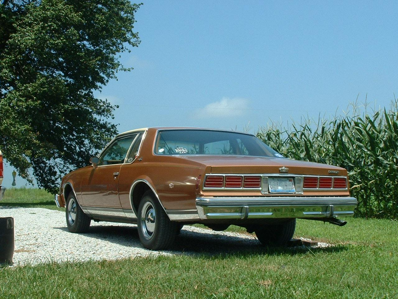 Rear view of a 1978 Chevrolet Caprice Coupe. Similar to all 77-79 Caprice Coupes.